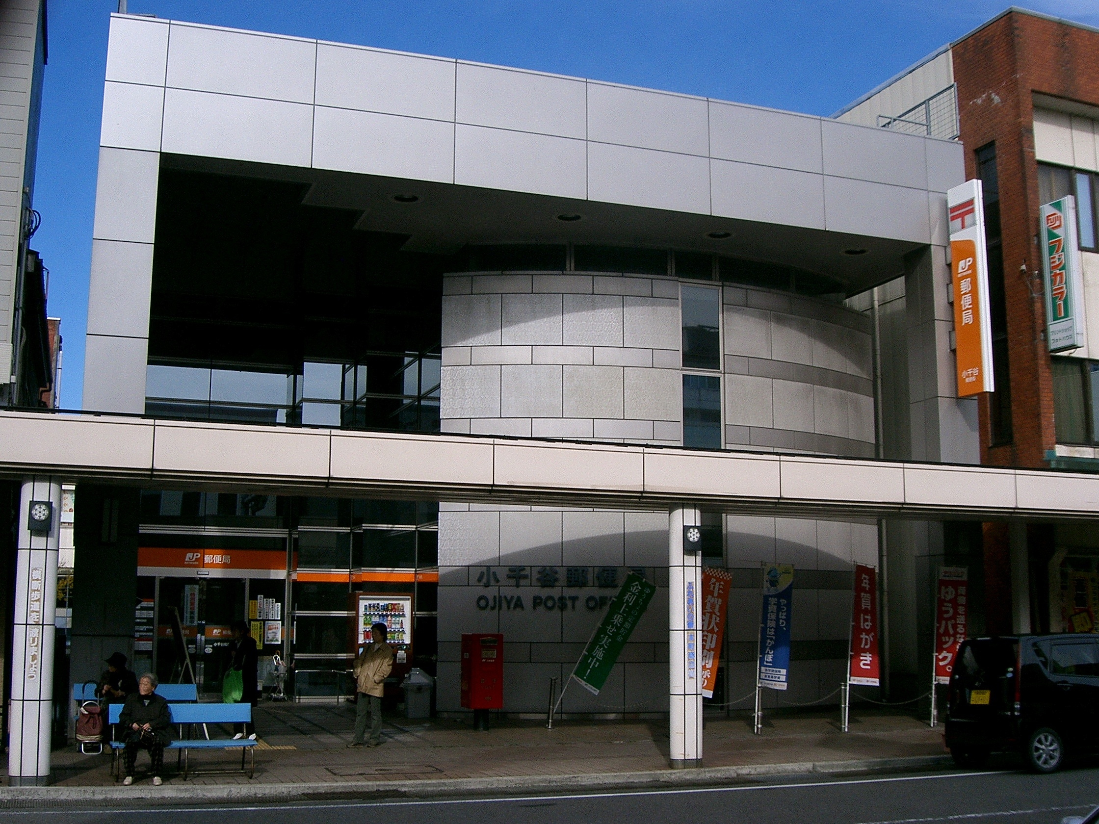 Ojiya Post Office